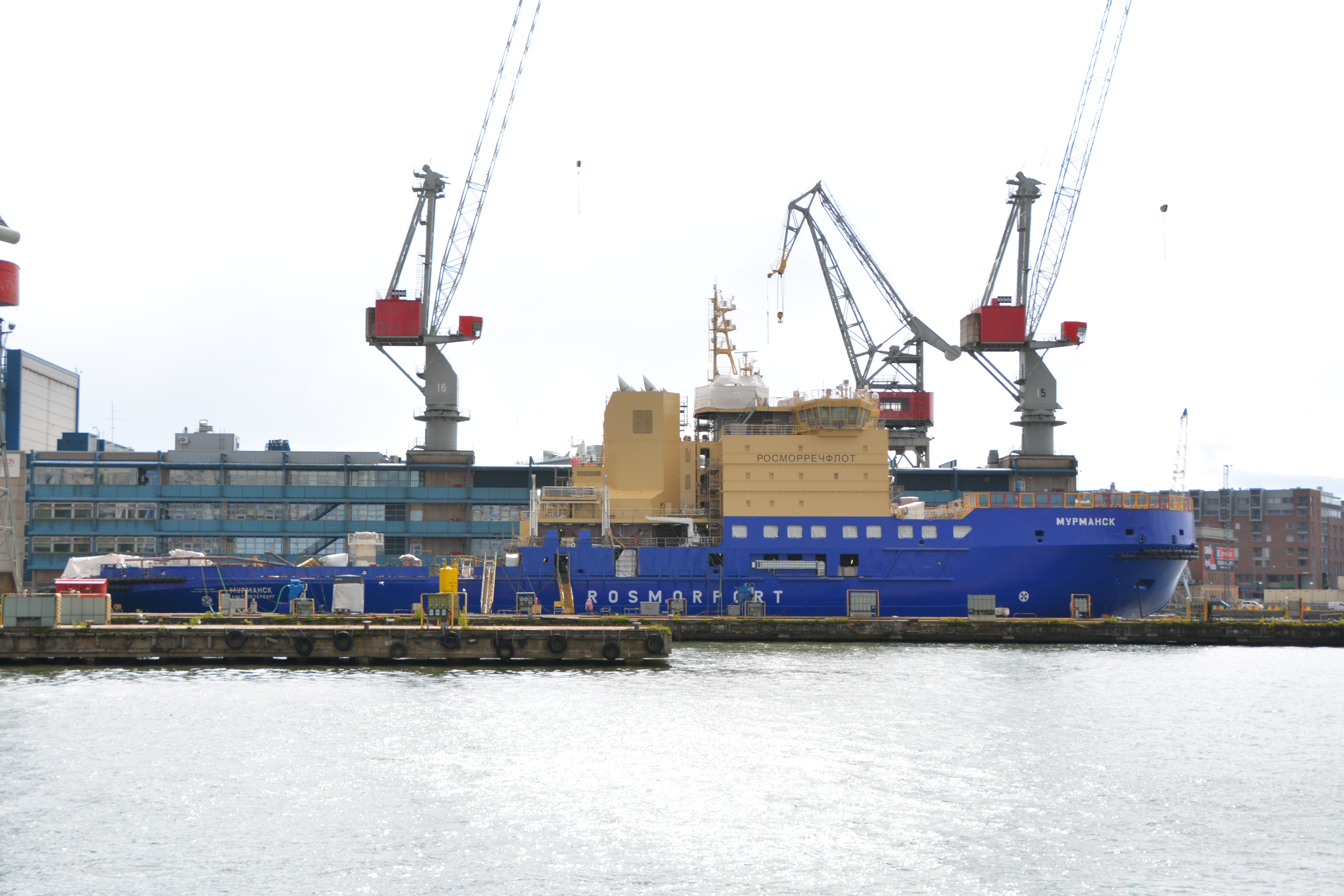 Russian icebreaker ;Murmansk during construction in Helsinki